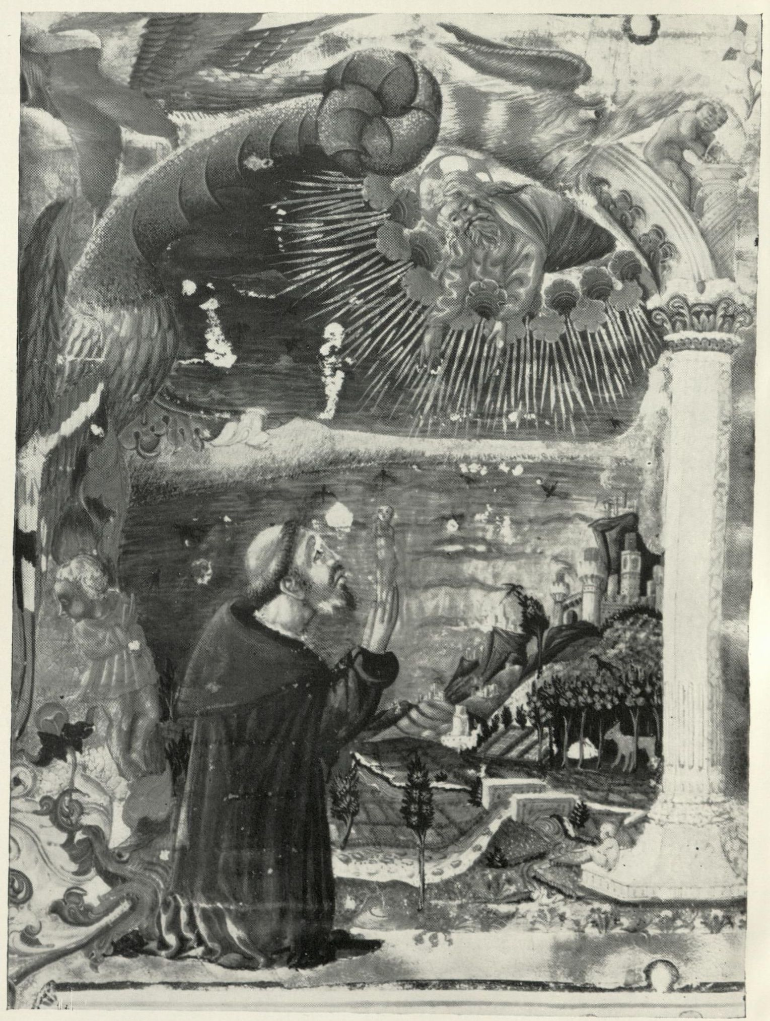 Cardinal Bessarion kneeling in prayer, offering his soul (presented as a nude little child) to God. Book illumination in one of Bessarion’s choir books. Manuscript Cesena, Biblioteca Malatestiana, Ms. Bessarione cor. 2, fol. 1r.